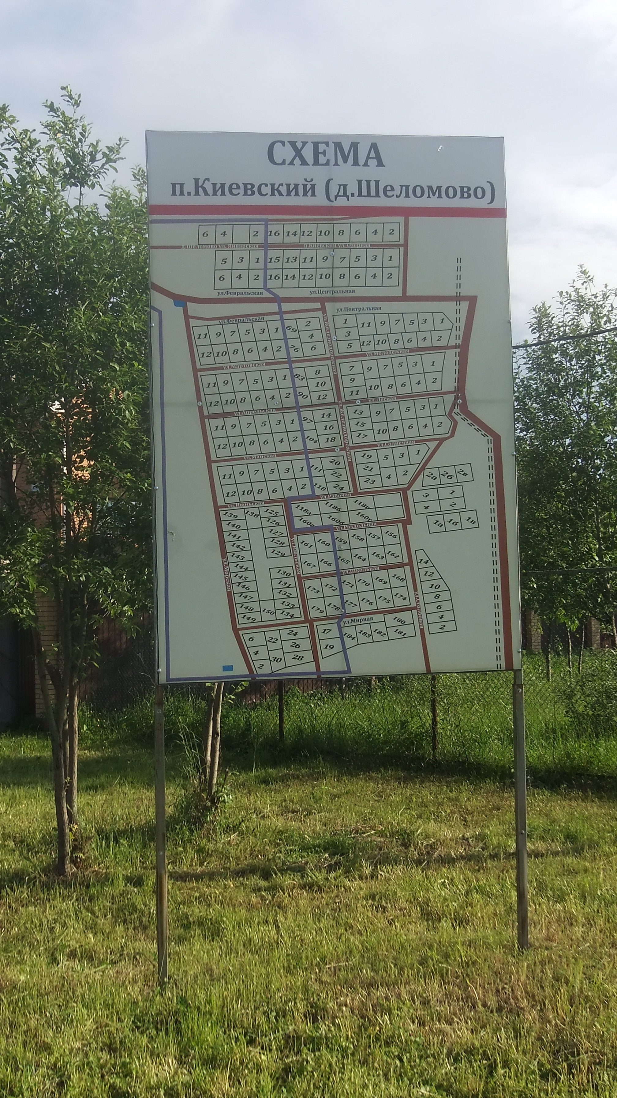 Posyolok Kievskiy / Shelomovo village - scheme of houses and streets near their bound.